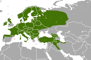 European Pine Marten (Martes martes) range (green - native, red - introduced). Includes national borders.